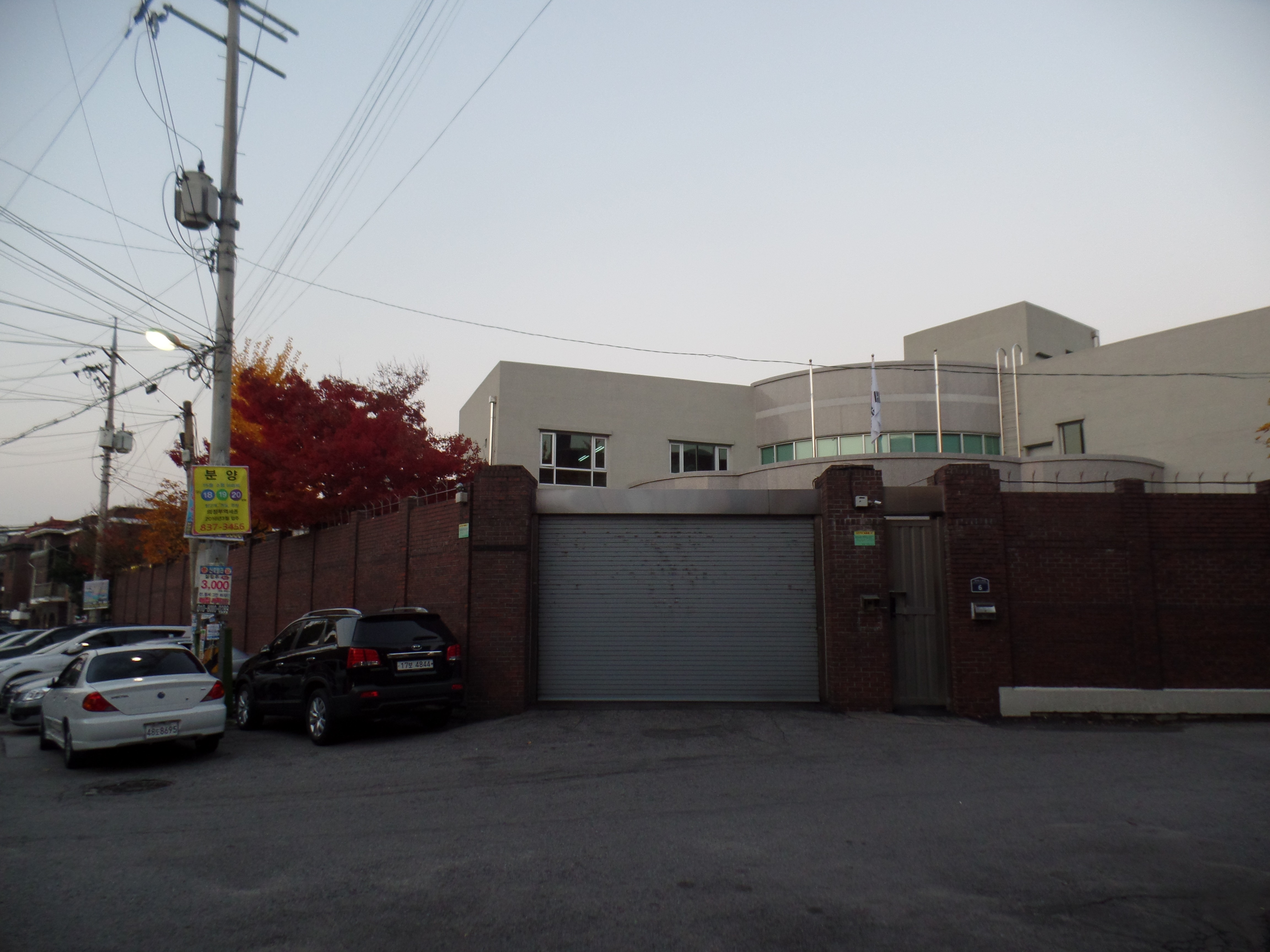 Gyeonggi Provincial Police Agency National Security Investigation Squad IV(Gyeonggi Provincial Police Agency National Security Branch Office in Uijeongbu, Gyeonggi-do)